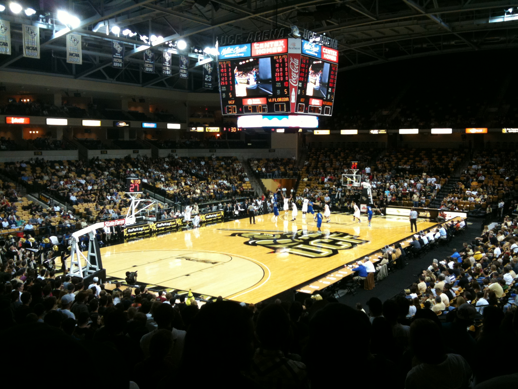 The interior of the UCF Arena, located on the main campus of the University of Central Florida in Orlando, Florida, United States.